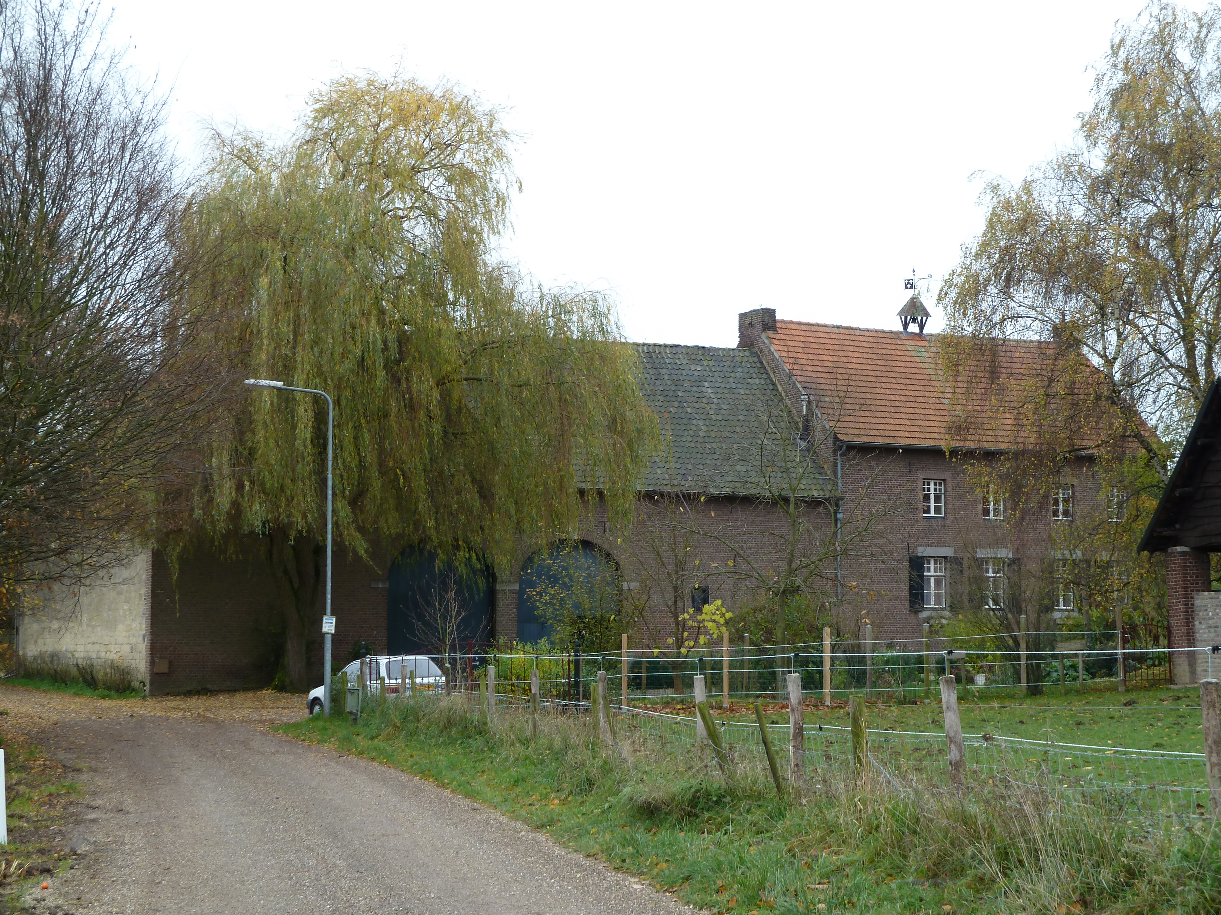 Kaardenbekerweg 30, Klimmen, Limburg, the Netherlands